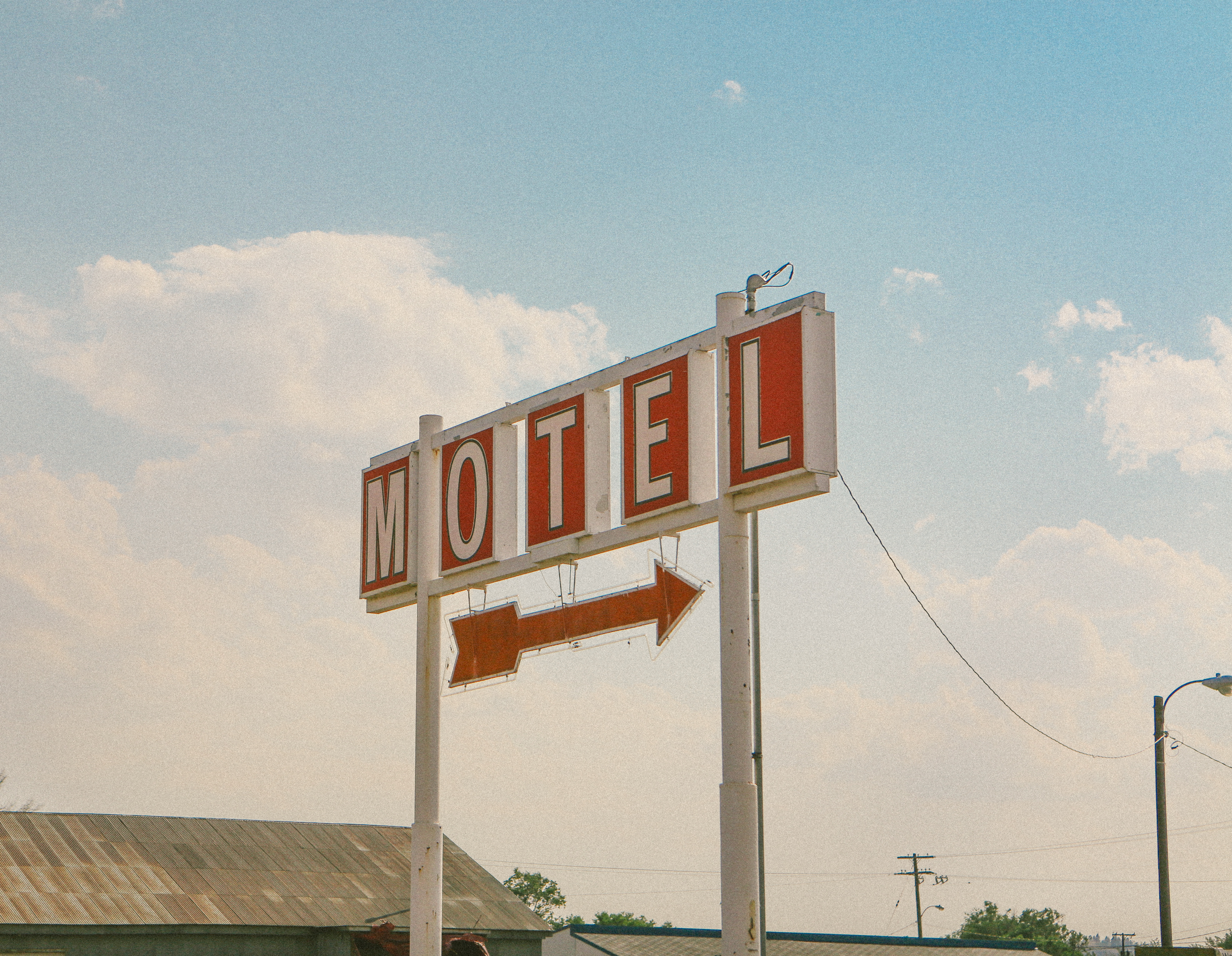 Matthew Smith 2015-01-20